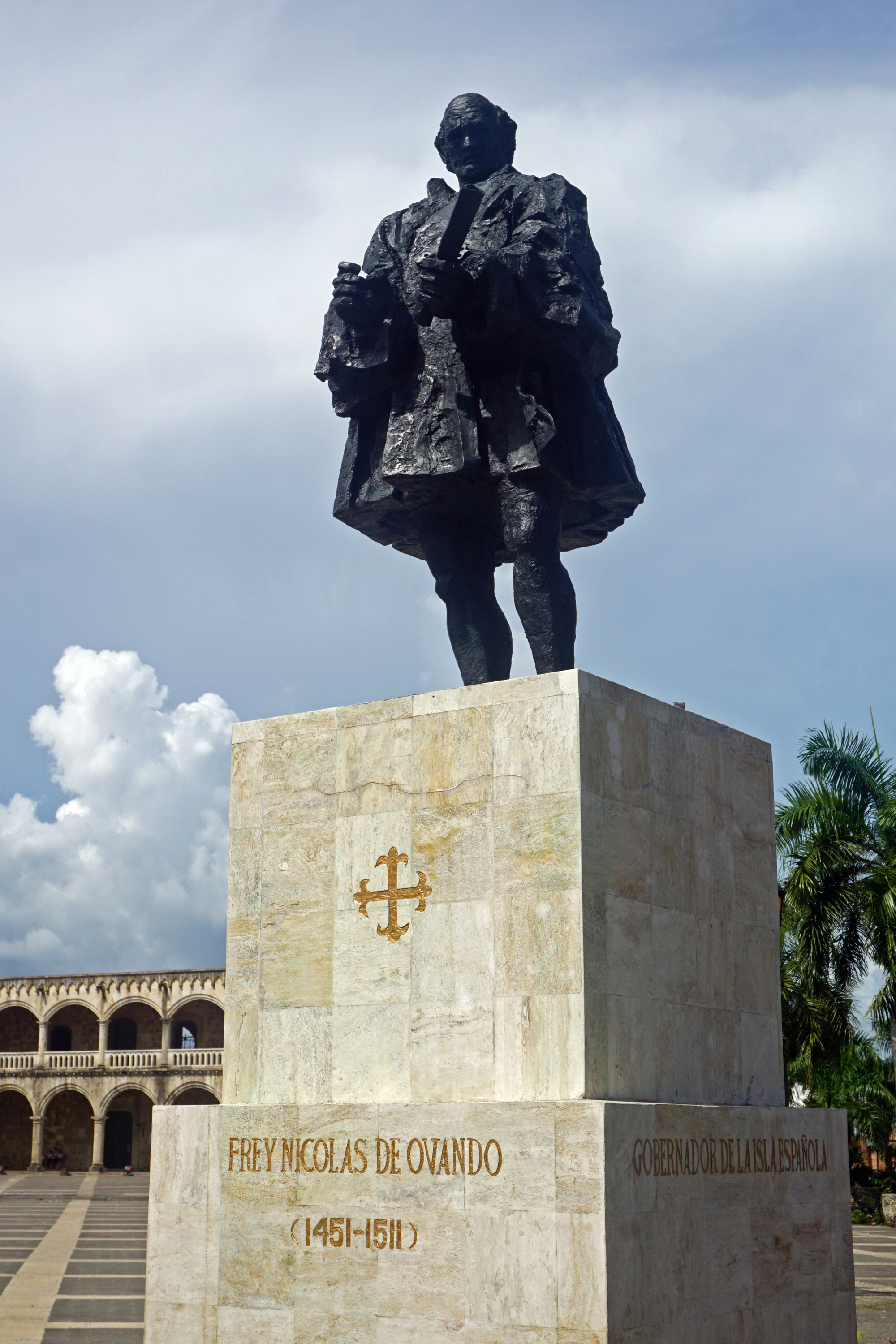 Statue of Nicolas de Ovando at España Square, Colonial City, Santo Domingo, Dominican Republic.